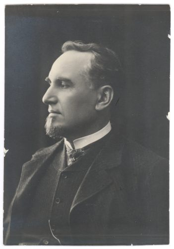 Kurtšinski, Vassili (1855-1918)